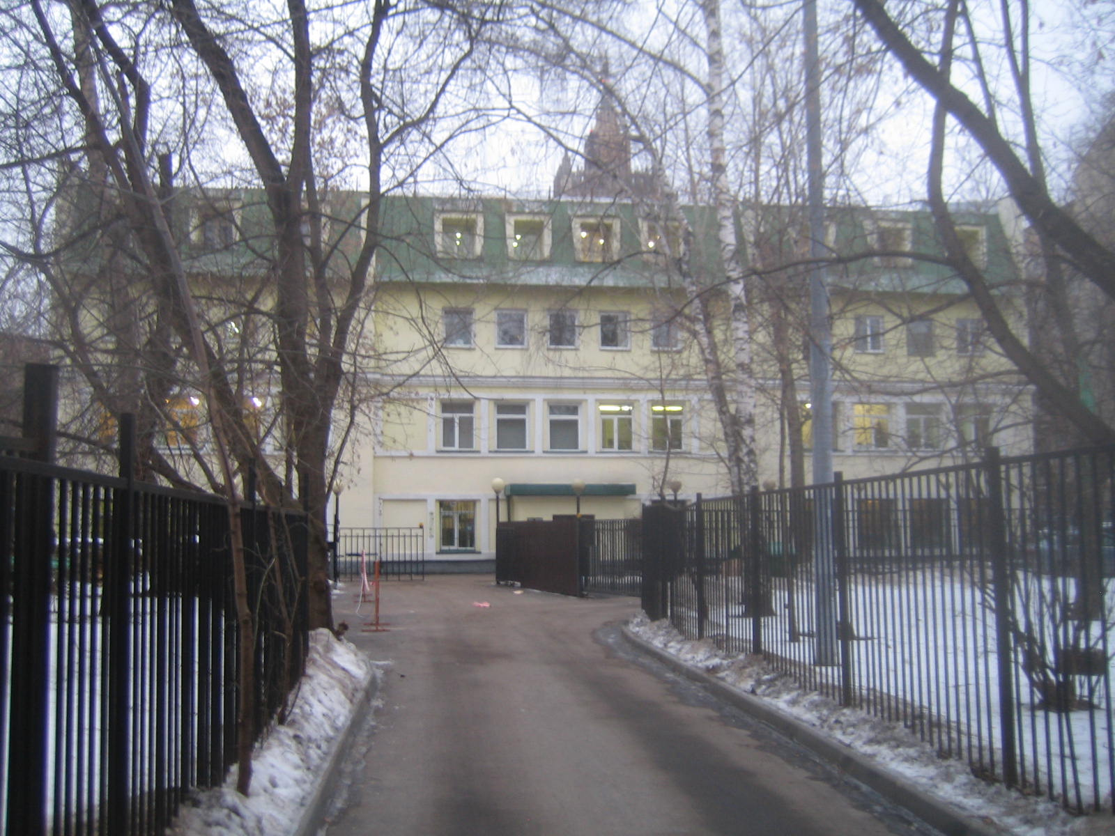 Front of the building of the Independent University of Moscow.